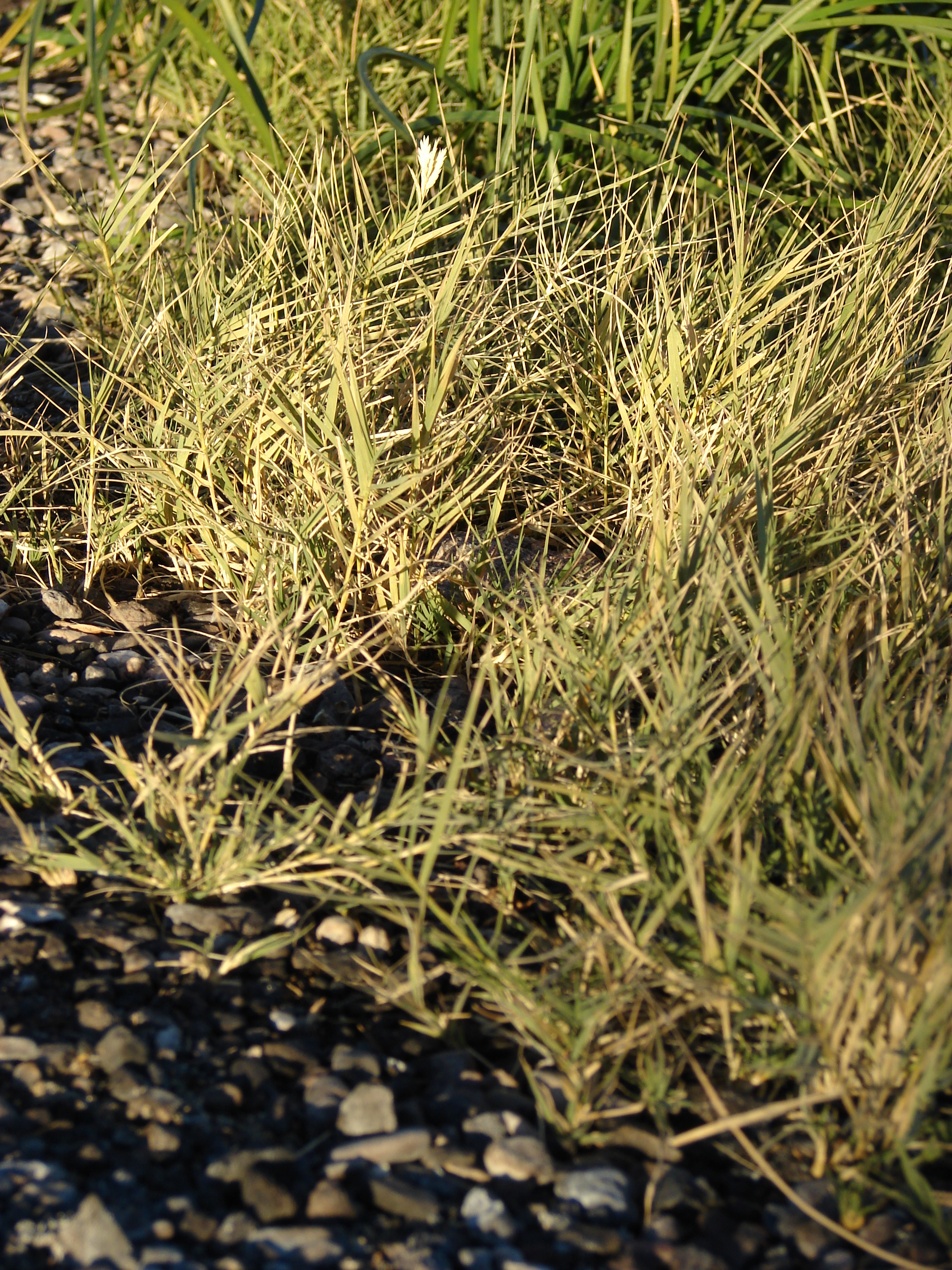 Distichlis spicata (habit). Location: Nevada, Rogers Spring Northshore Rd Lake Mead